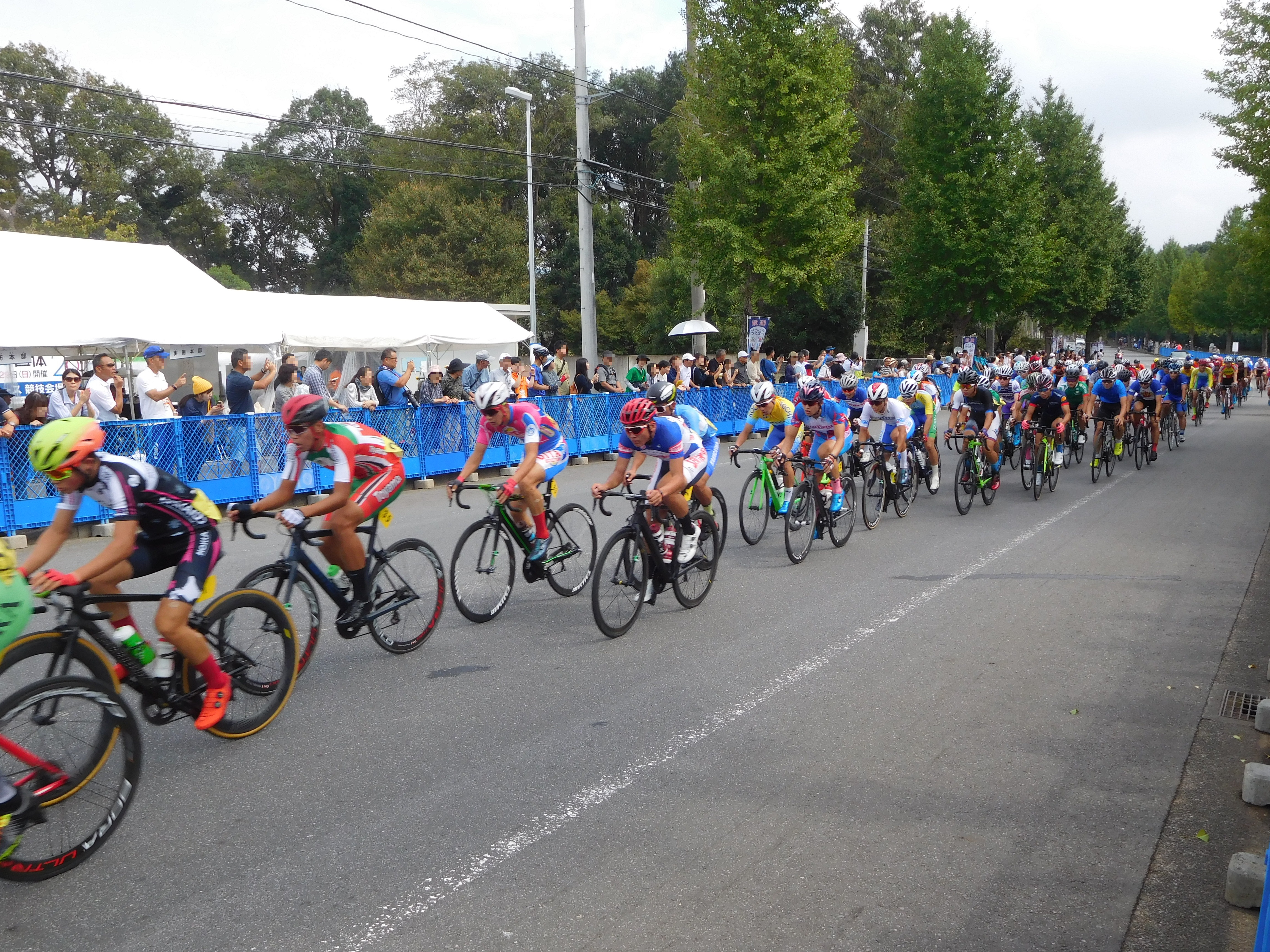 Road Cycling Competition at the 74th National Sports Festival of Japan. One scene of the boys' race.